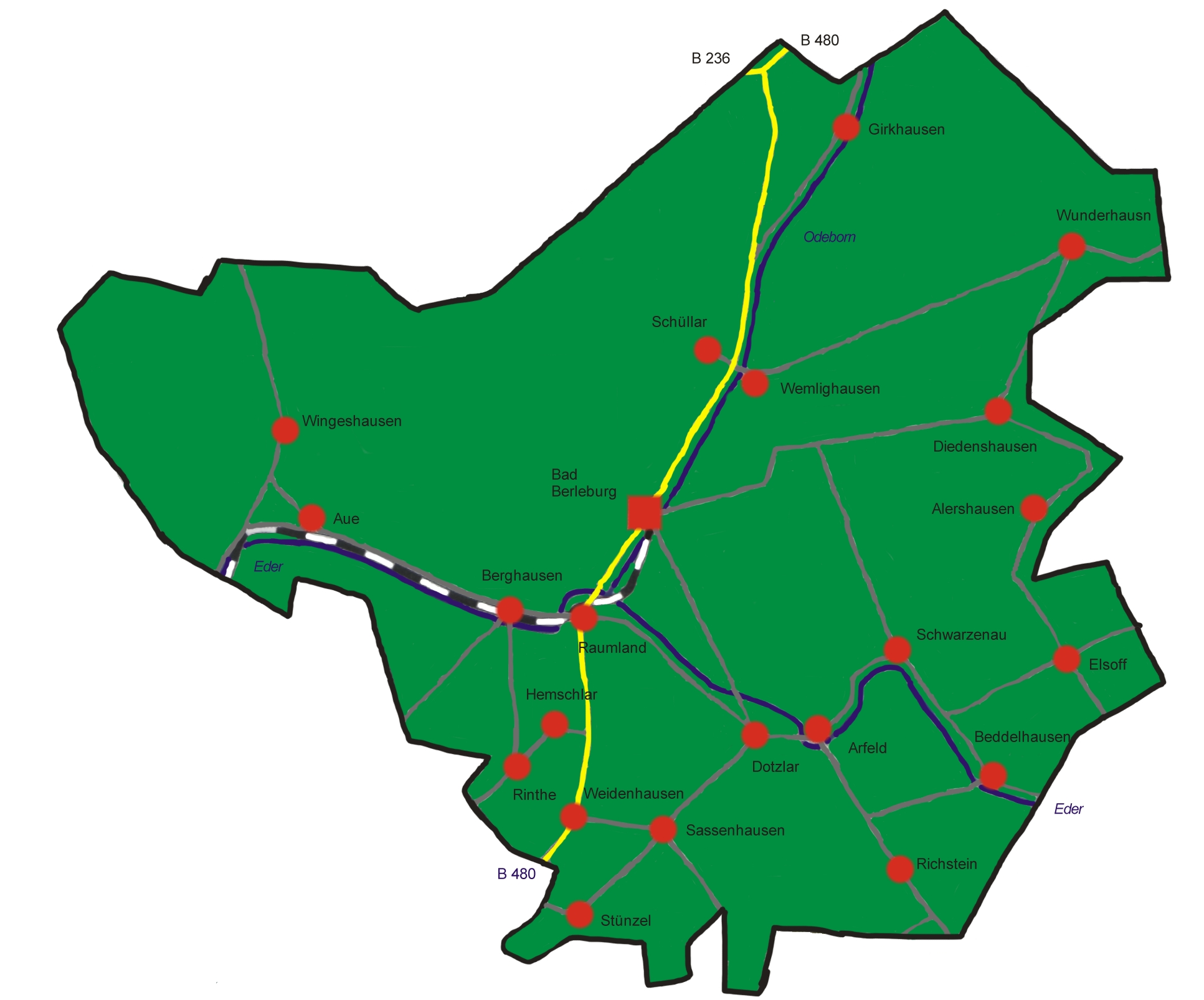 Drawing from Benutzer:Schumir